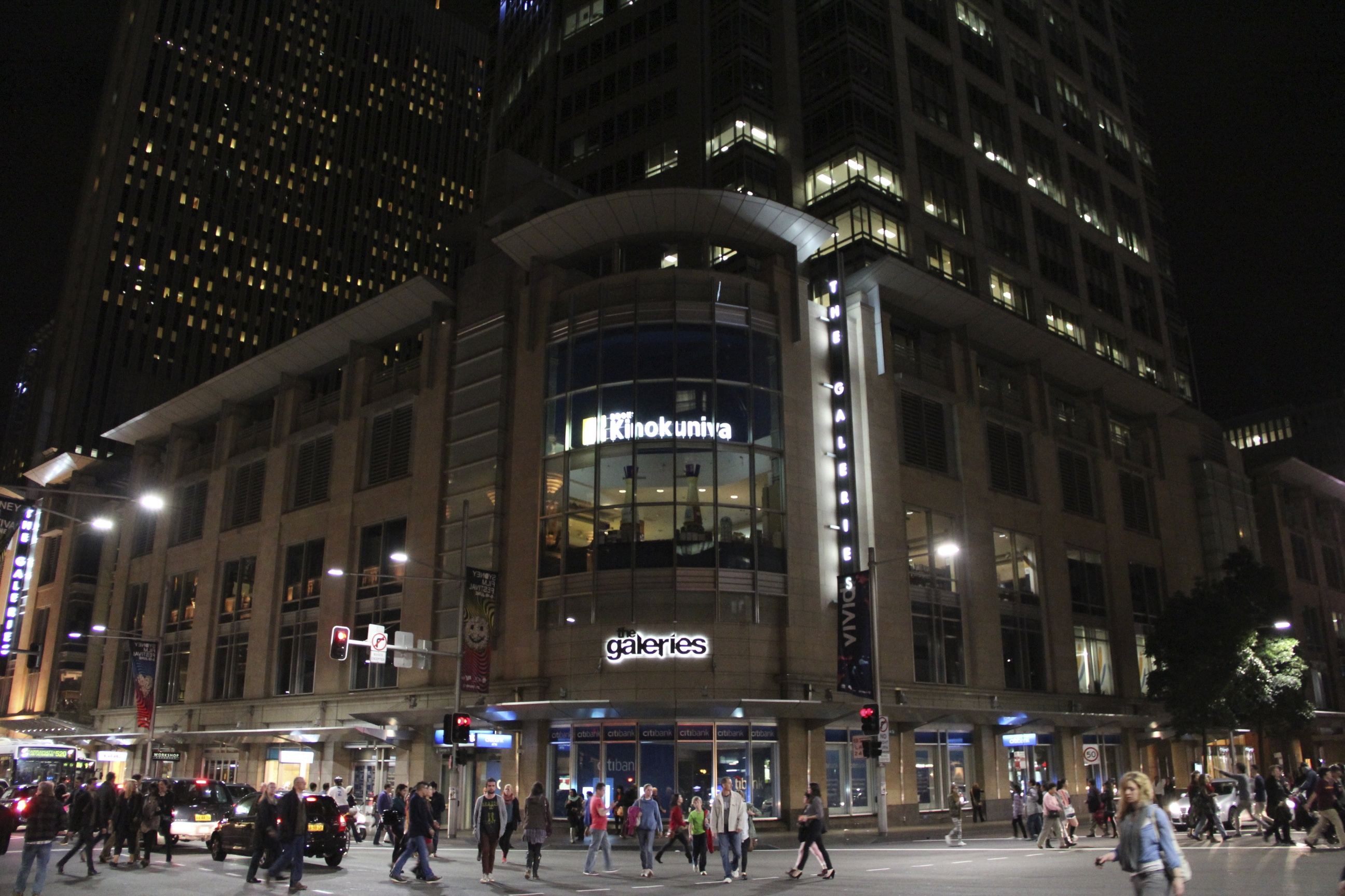 The Galeries shopping mall in Sydney by night